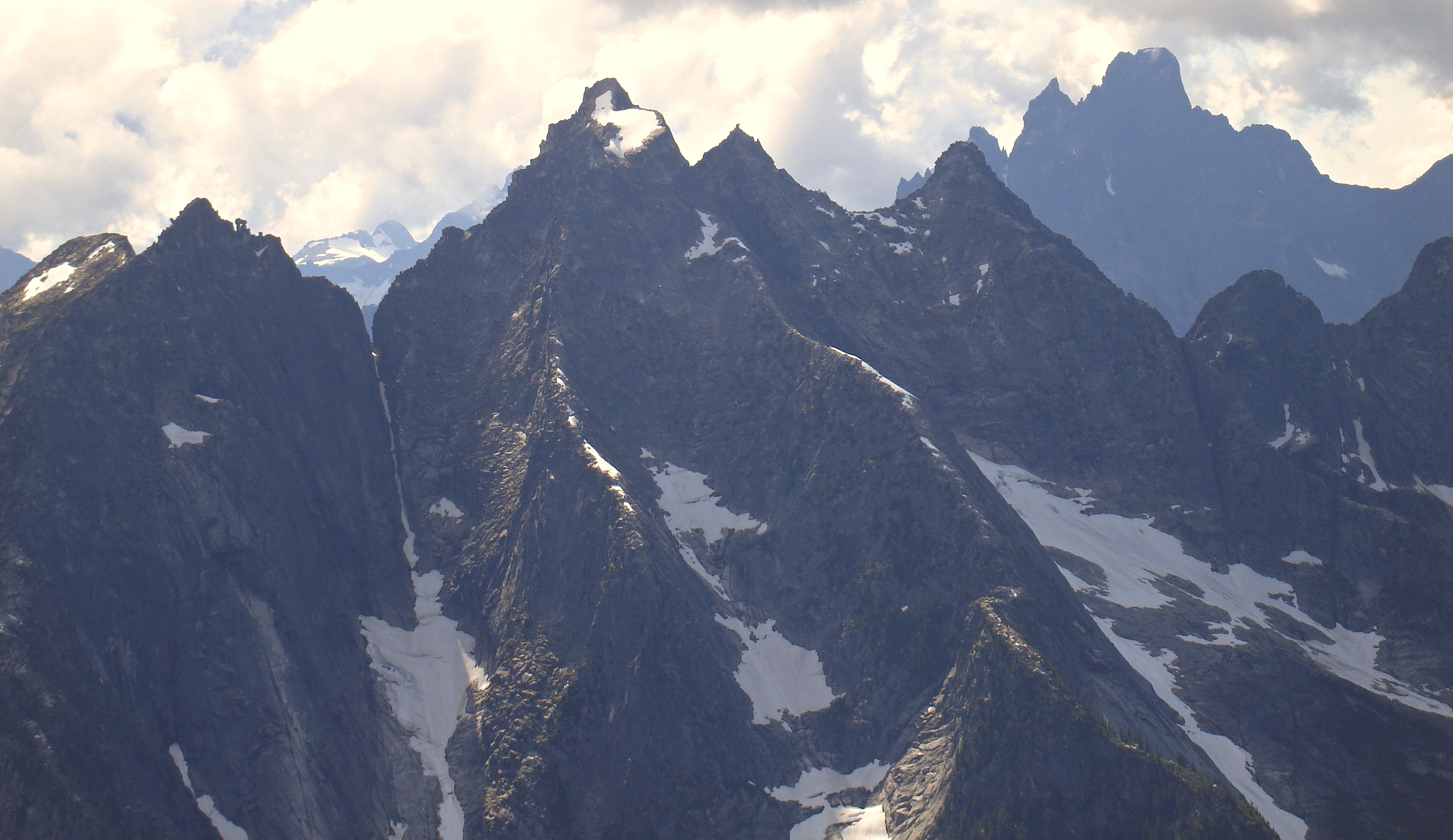 Mount Rexford with Slesse Mountain in the distance to right as seen from Mount Webb